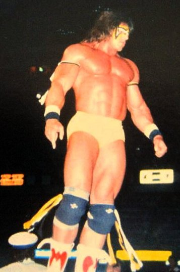 Professional wrestler Jim Hellwig performing as "The Ultimate Warrior"